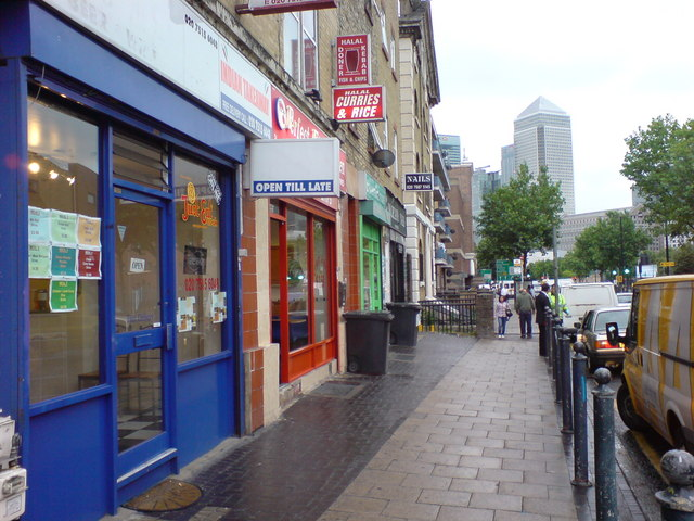 Pavement on West India Dock Road Near the corner of East India Dock Road.